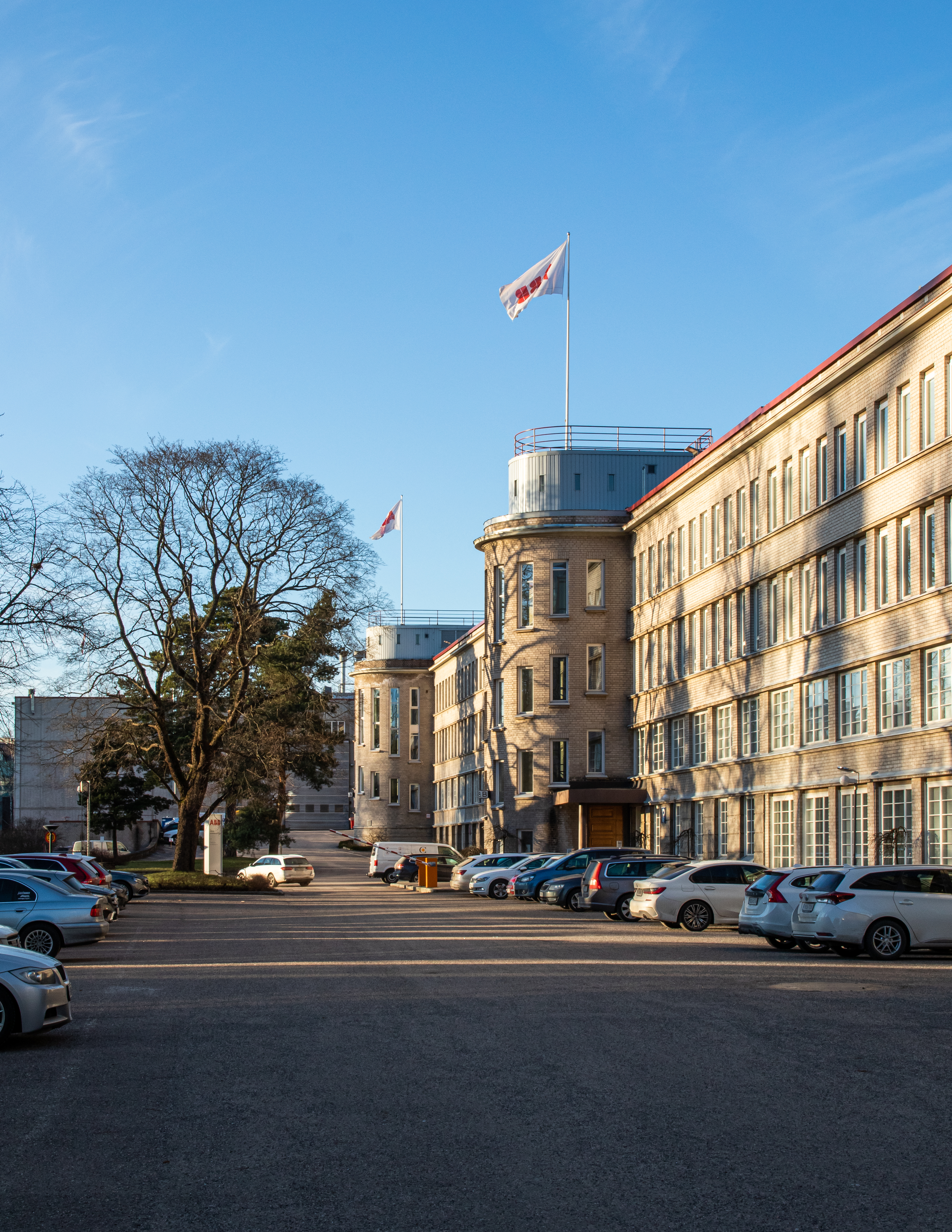 ABB's factory in Pitäjänmäki, Helsinki, Finland.